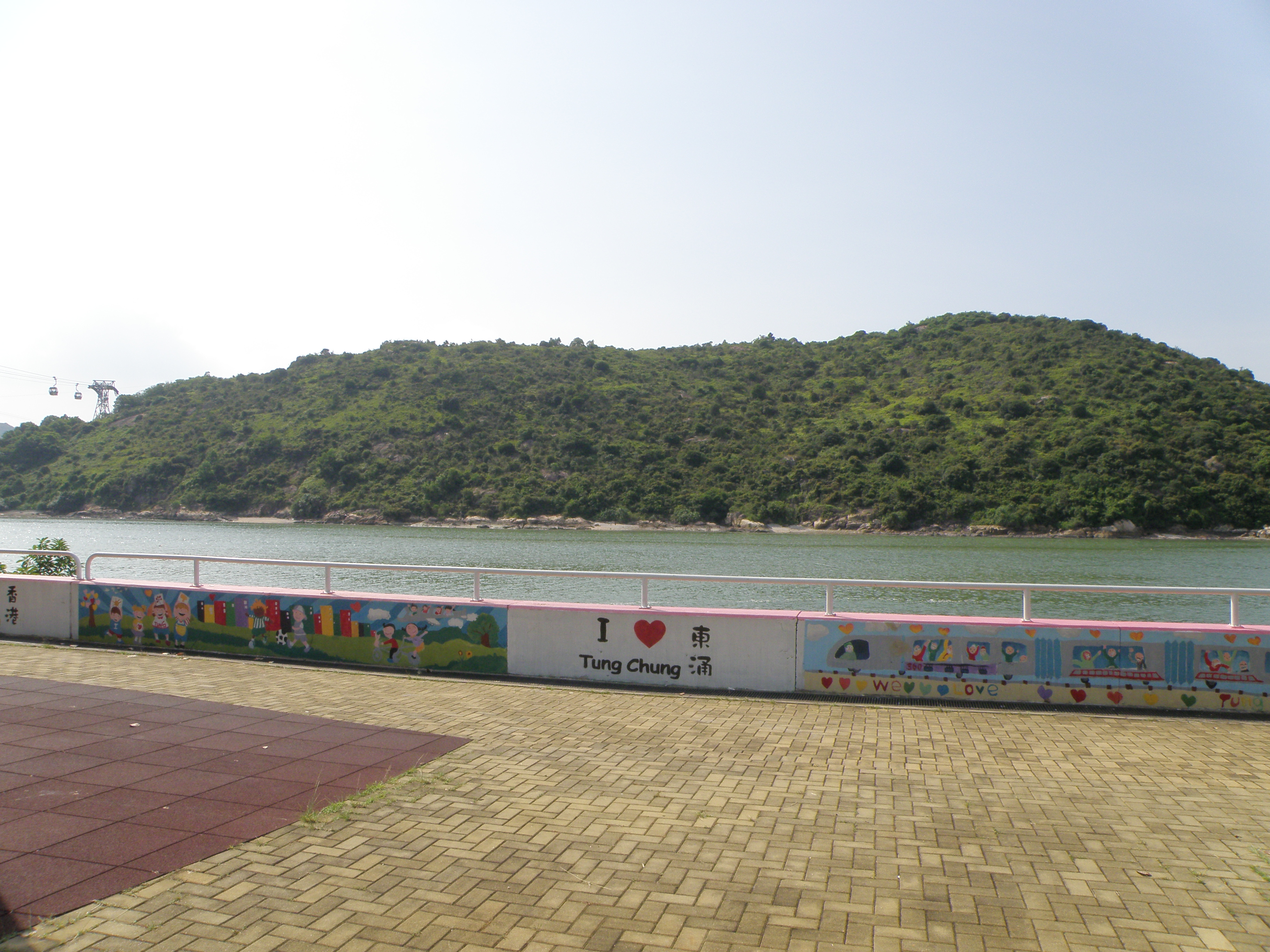 Scenic Hill in Chek Lap Kok, Hong Kong.